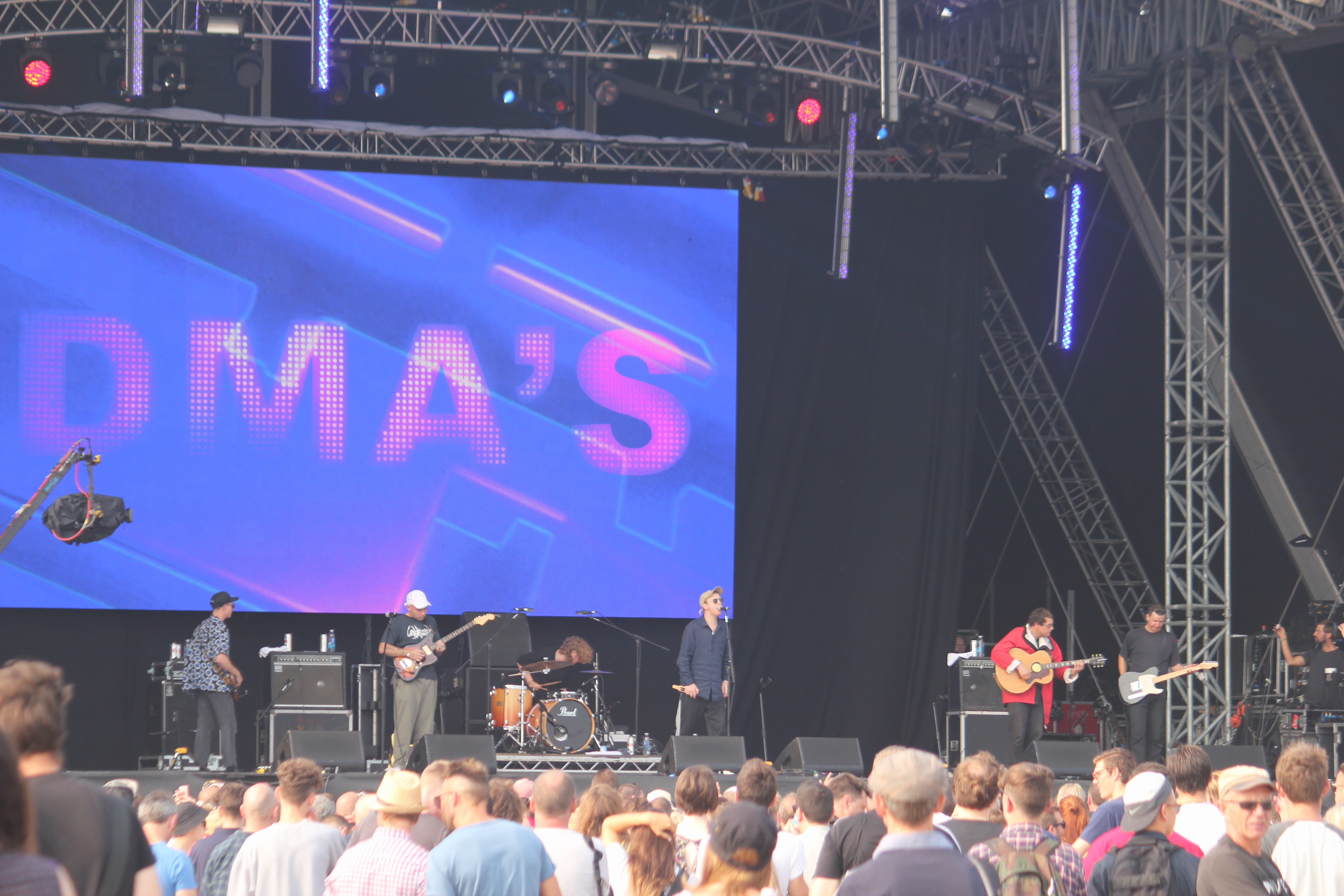 Rock band DMA's playing Victorious Festival, Portsmouth, UK 27th Aug 2016